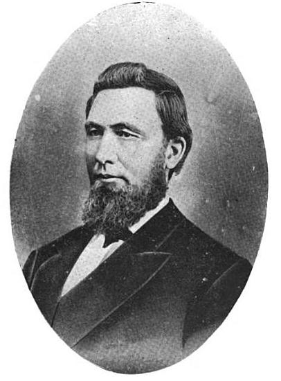 Photo of David Butler, first governor of Nebraska